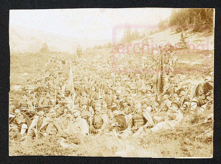 United chetas of Lyubomir Stoenchev and Yordan Stoyanov, 1902